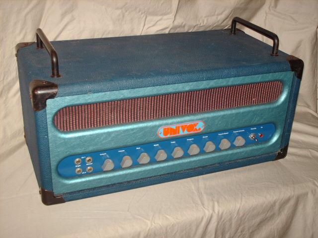 UNIVOX U-1011 "B-Group" amp head (early 70's)